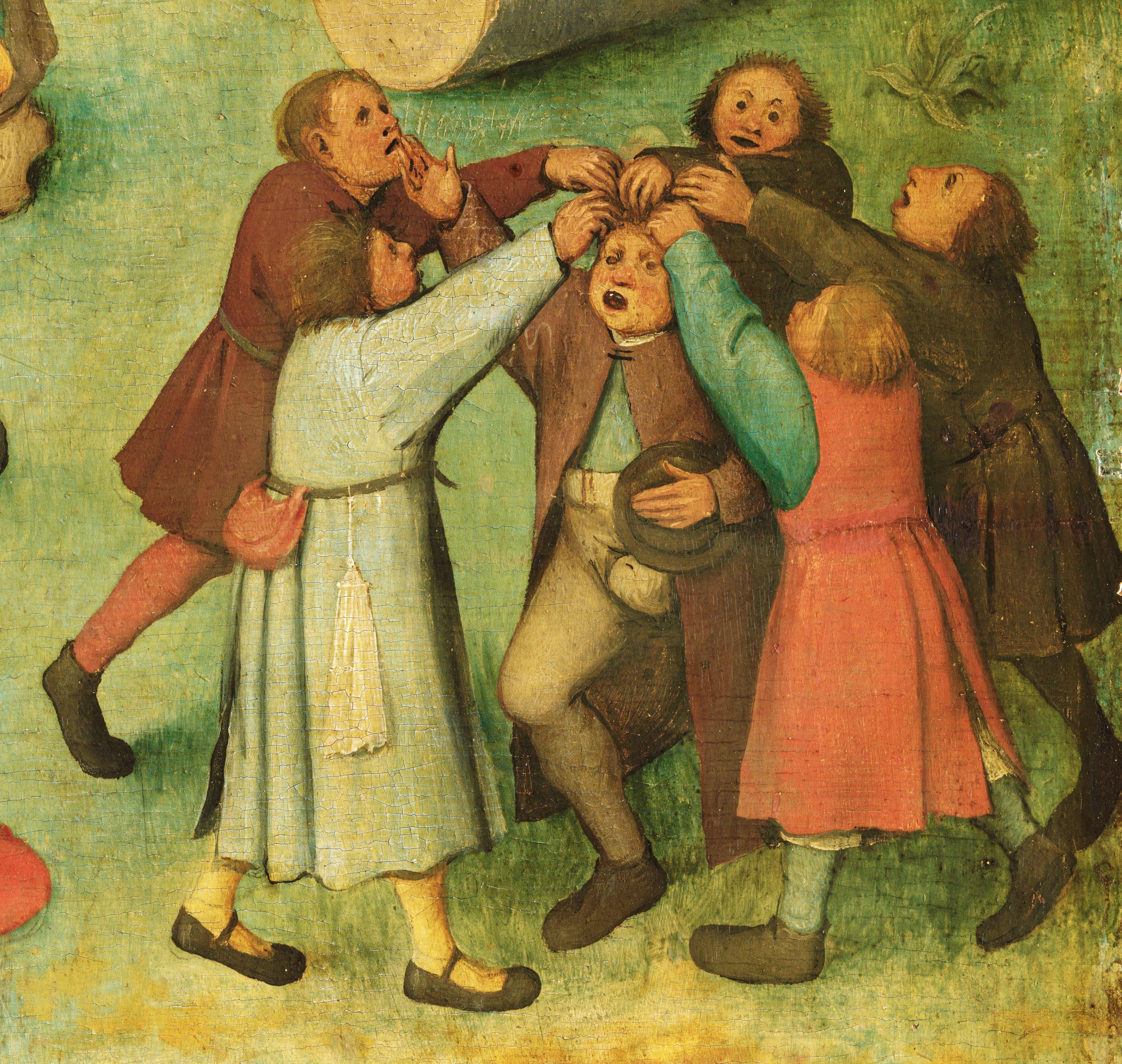 Detail from Children's Games by Pieter Bruegel the Elder